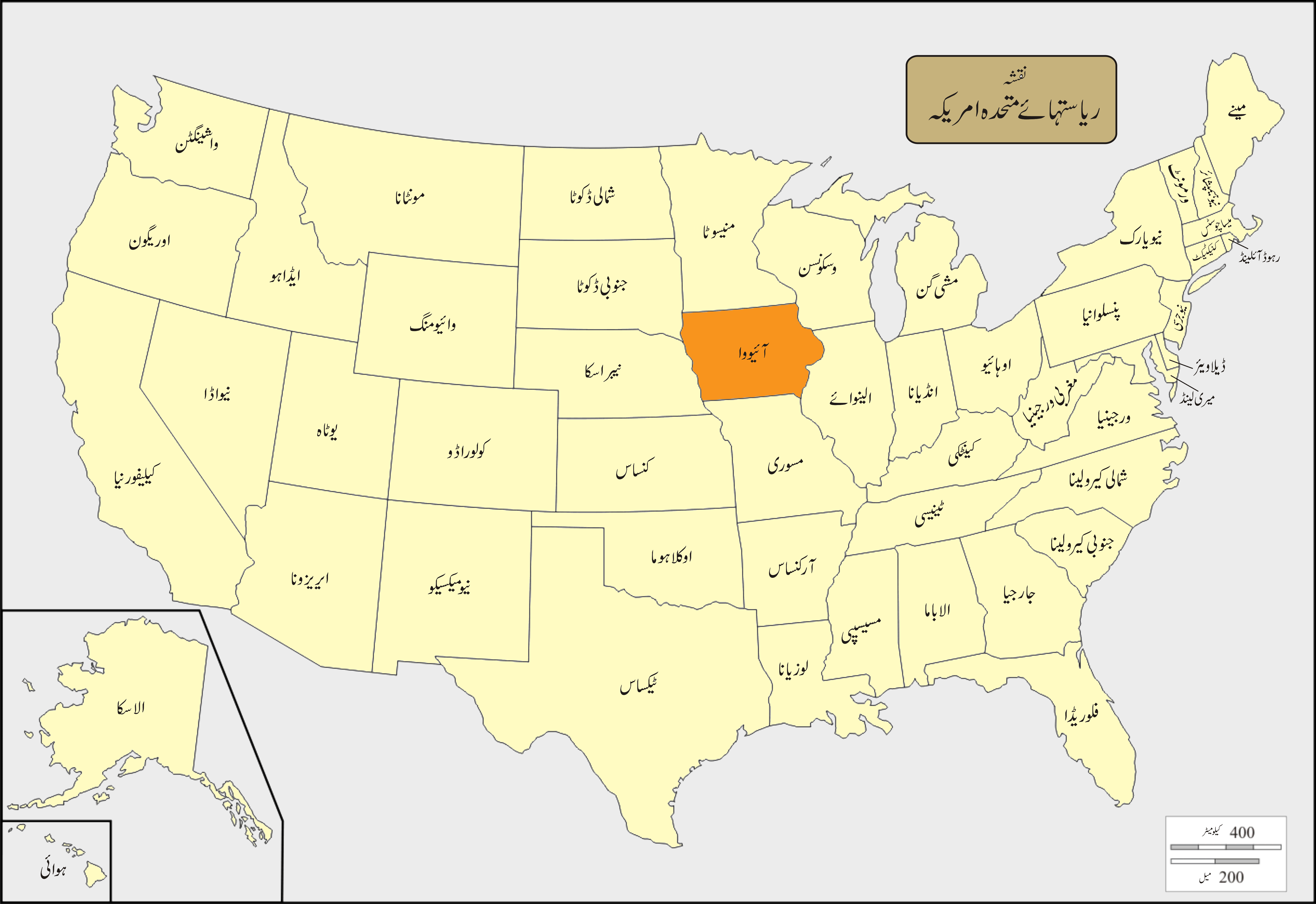 USA Names Iowa